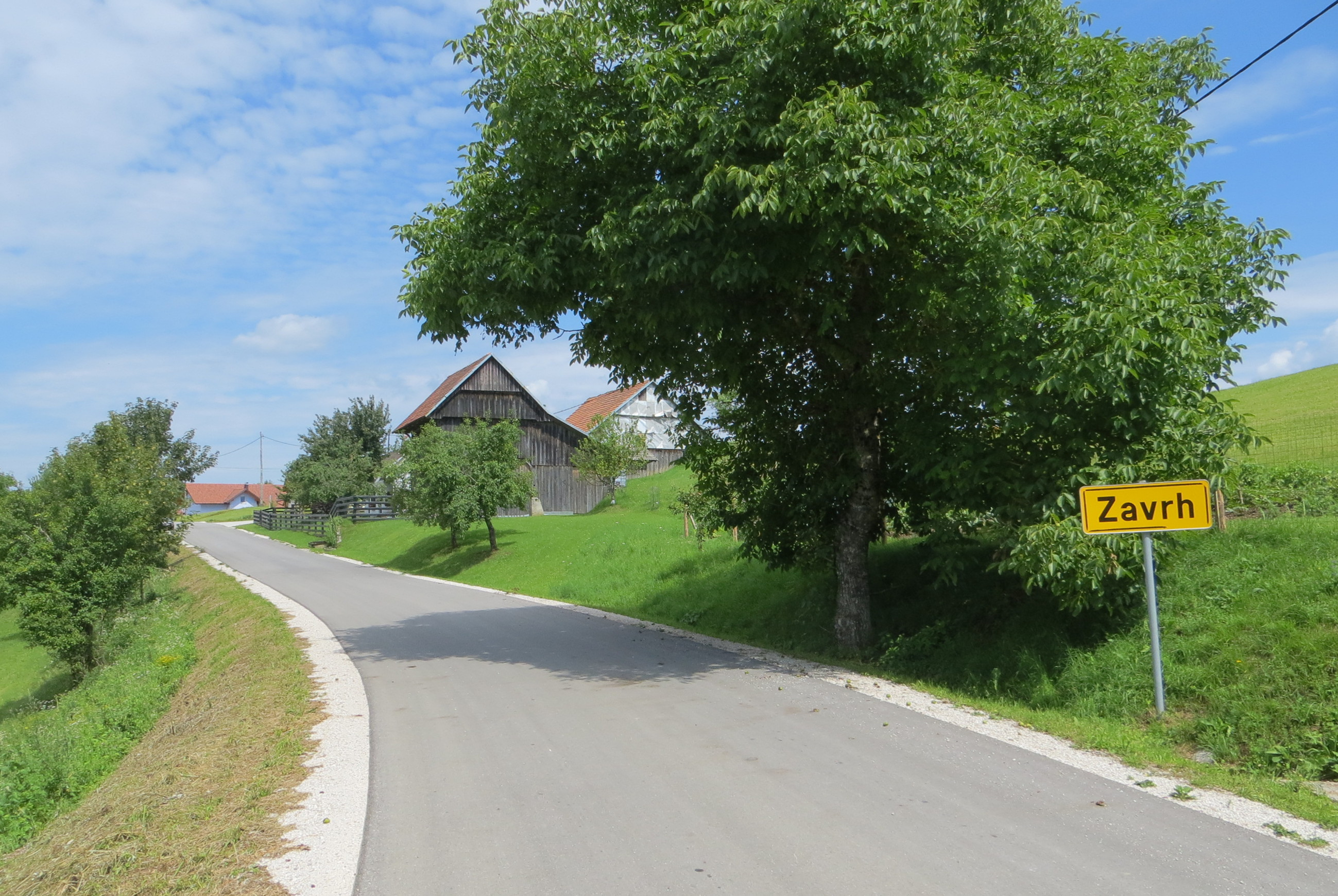 Zavrh, Municipality of Bloke, Slovenia